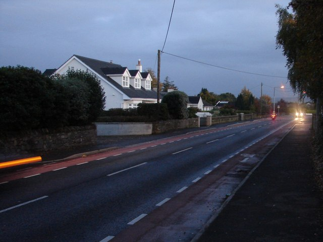 Evening Traffic on Maynooth Road Somewhat less congested than an hour or so earlier.